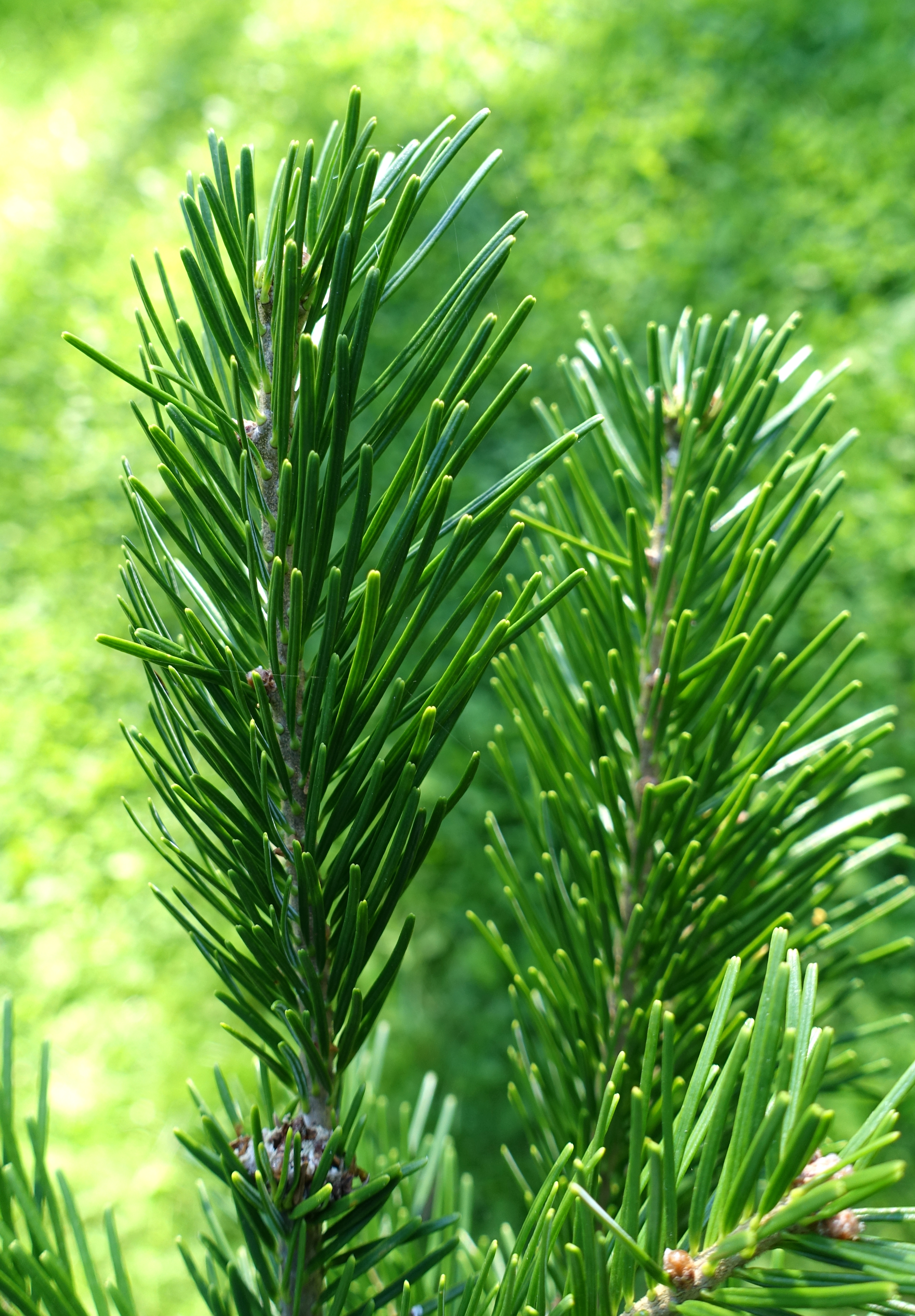 Botanical specimen in the Bergianska trädgården - Stockholm, Sweden.